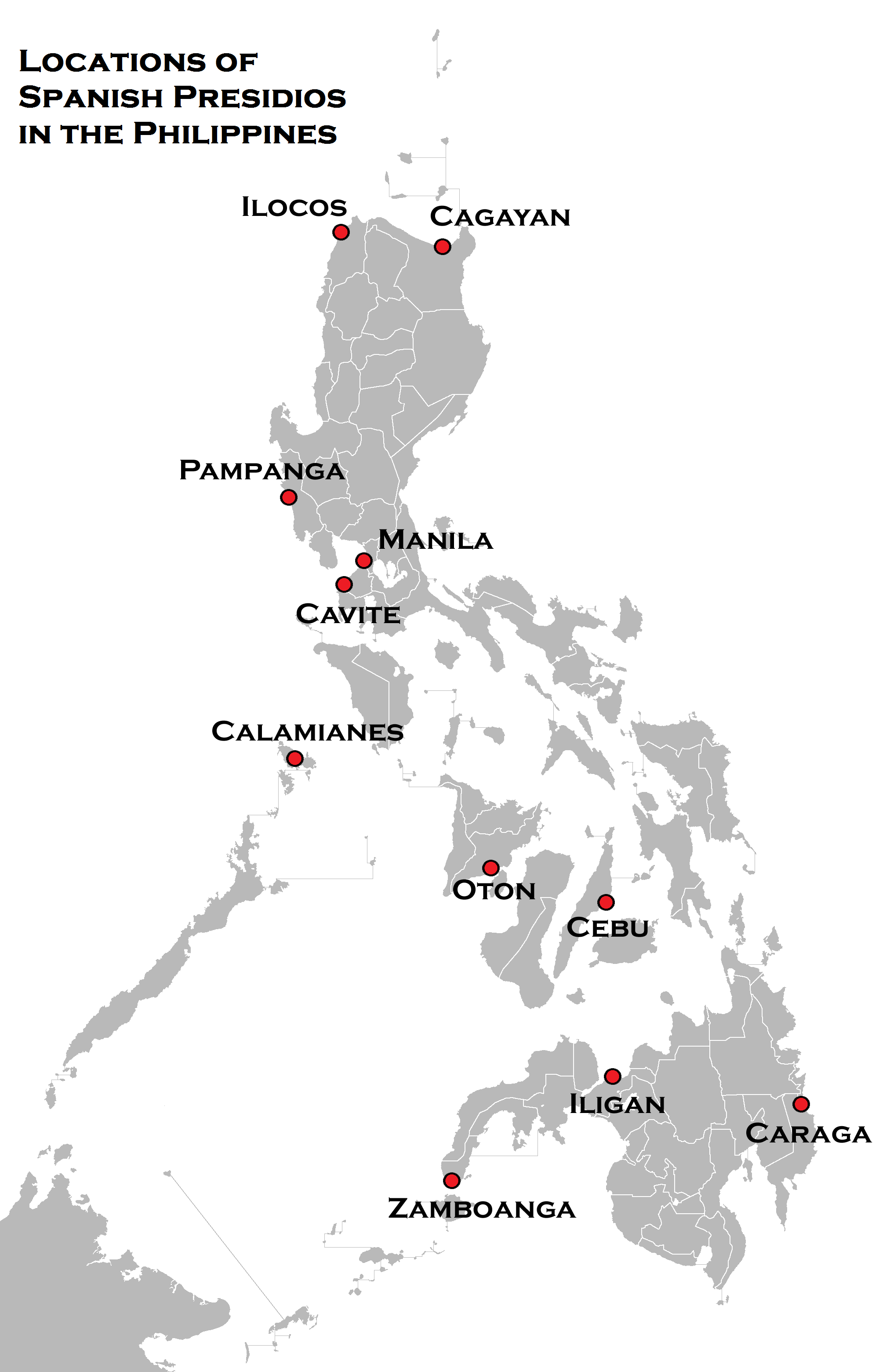 This is a map outlining the general locations of the Spanish "Presidios" built in the Philippines during the 1600s, according to the book: Fortress of Empire by Rene Javellana, S. J. 1997